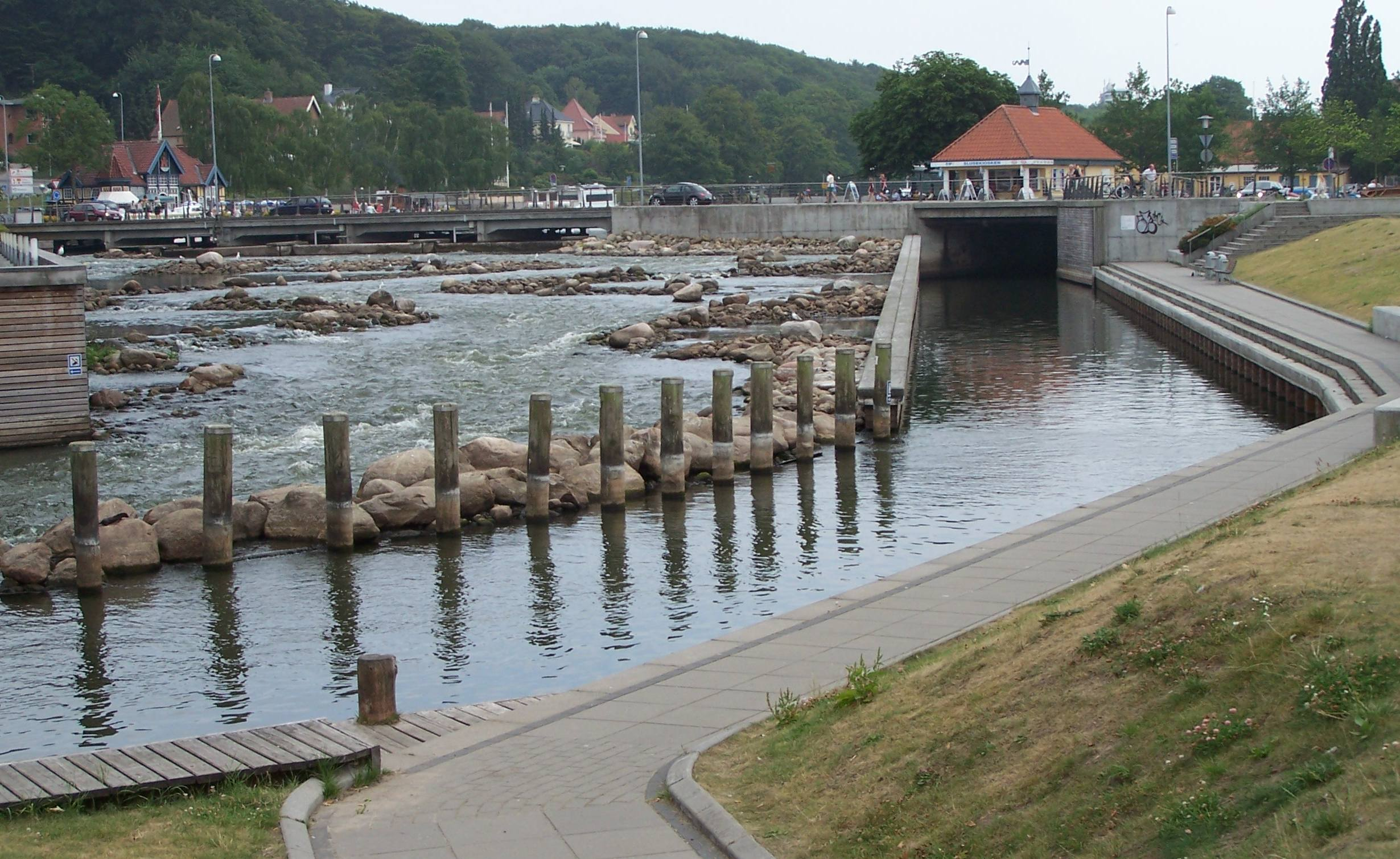 Fish steps in Silkeborg Was in category Silkeborg on wikivoyage